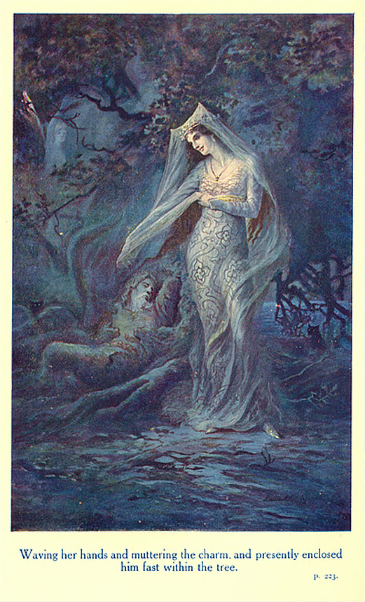 scan of illustration at title page in a book of Merlin And Vivien.